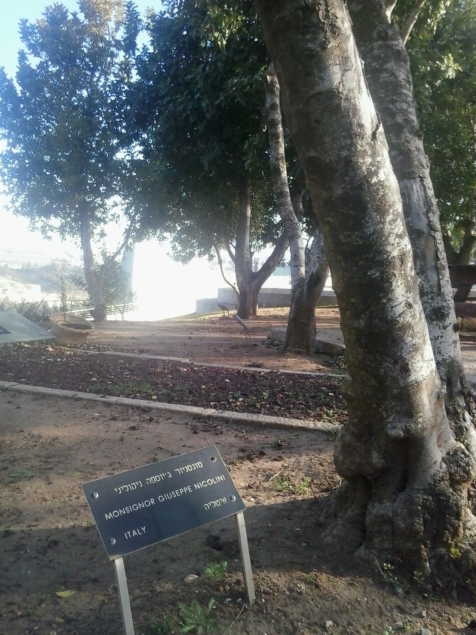 The Tree planted at Yad Vashem honoring the Righteous Among the Nations Giuseppe Nicolini